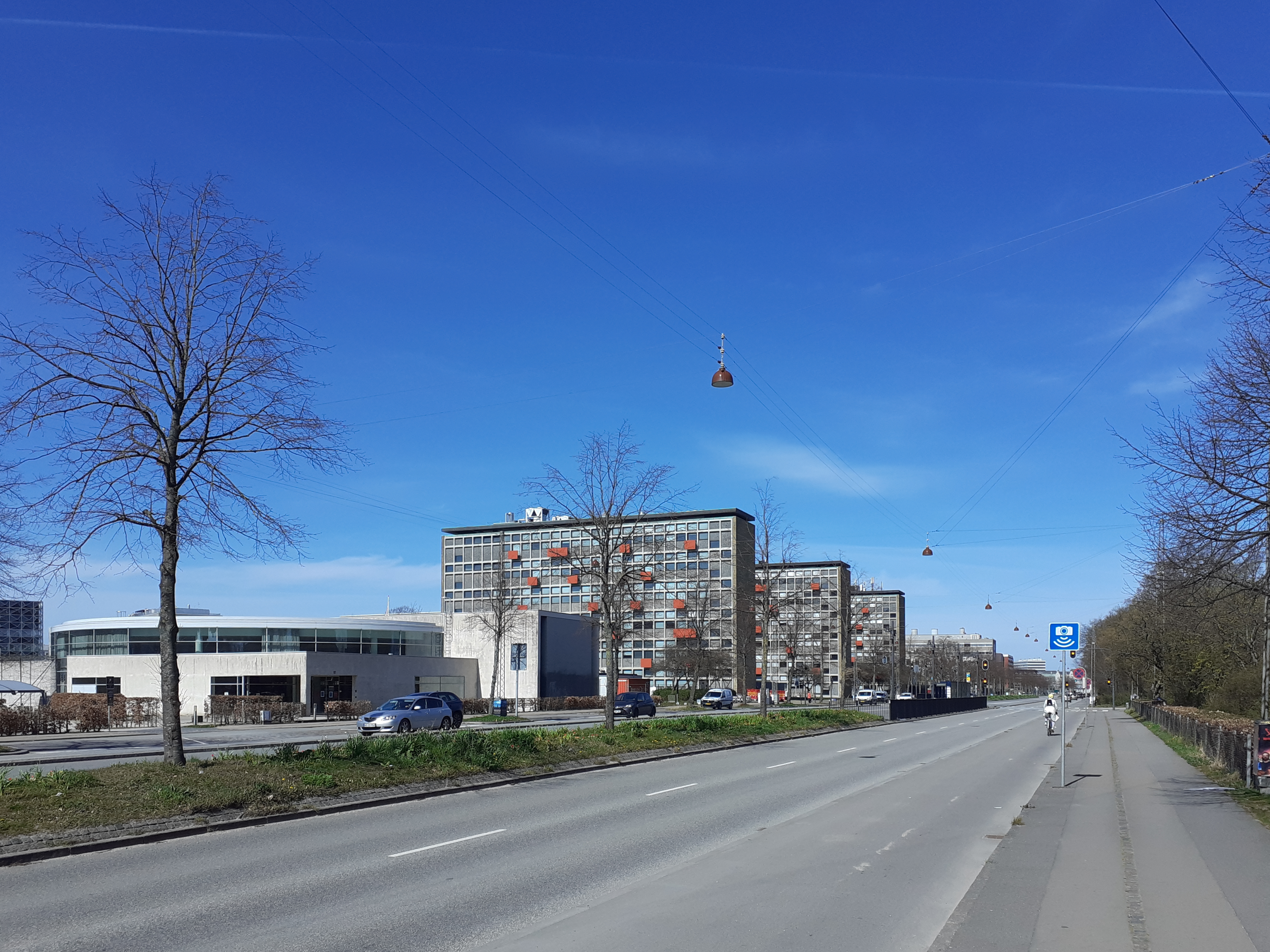 The street Nørre Allé in Nørrebro in Copenhagen. In the middle of the street, the bus rapid transit Den kvikke vej (the quick way). In the background the H. C. Ørsted Institute can be seen.